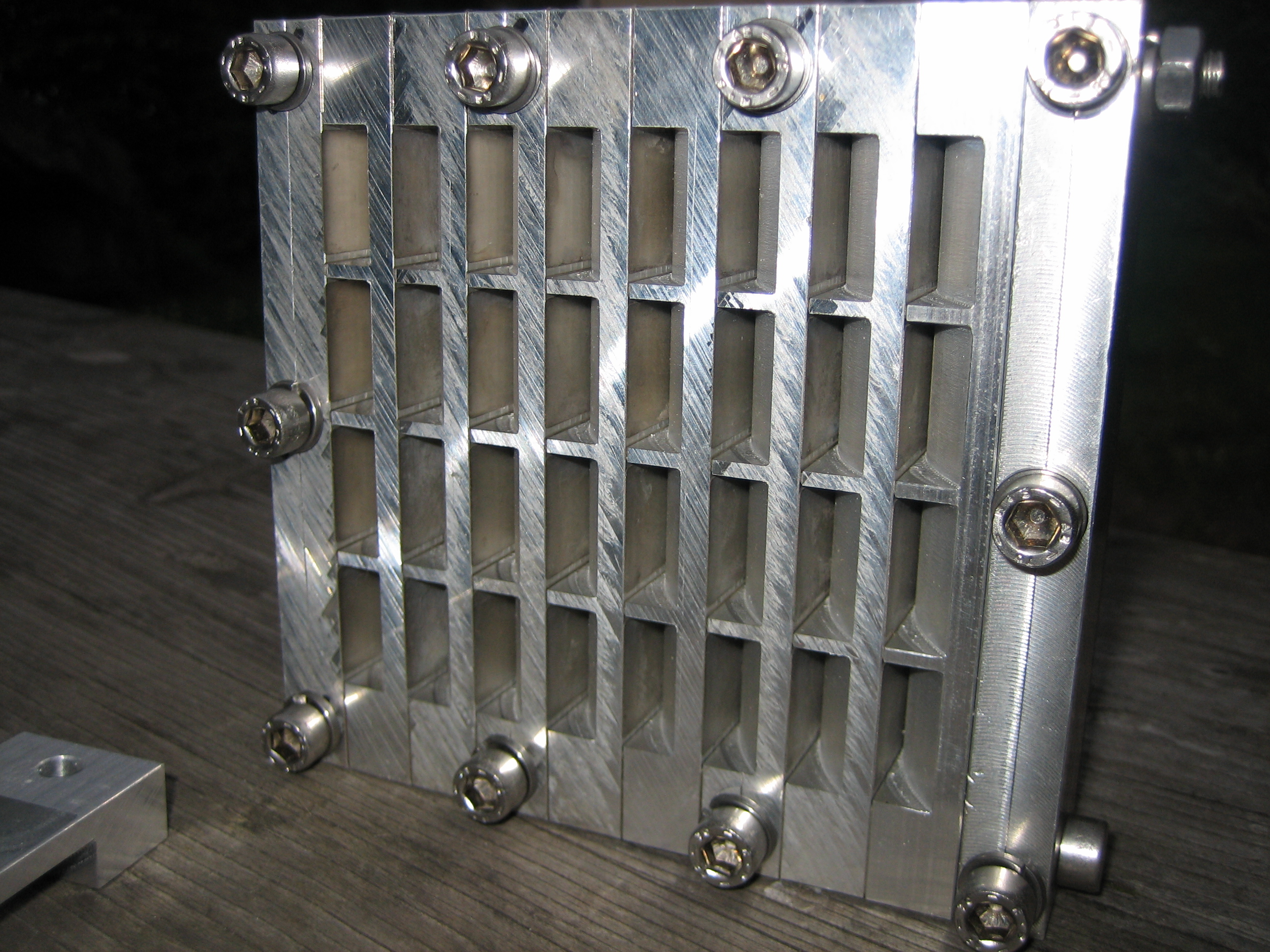 Valve register of Pulsjet